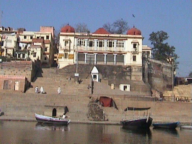 See Varanasi Development Cooperation Handbook/Stories/Responsible Development - Varanasi The Varanasi Heritage Dossier Kautilya Society Play media Vrinda Dar - How we got involved in heritage protection of Varanasi